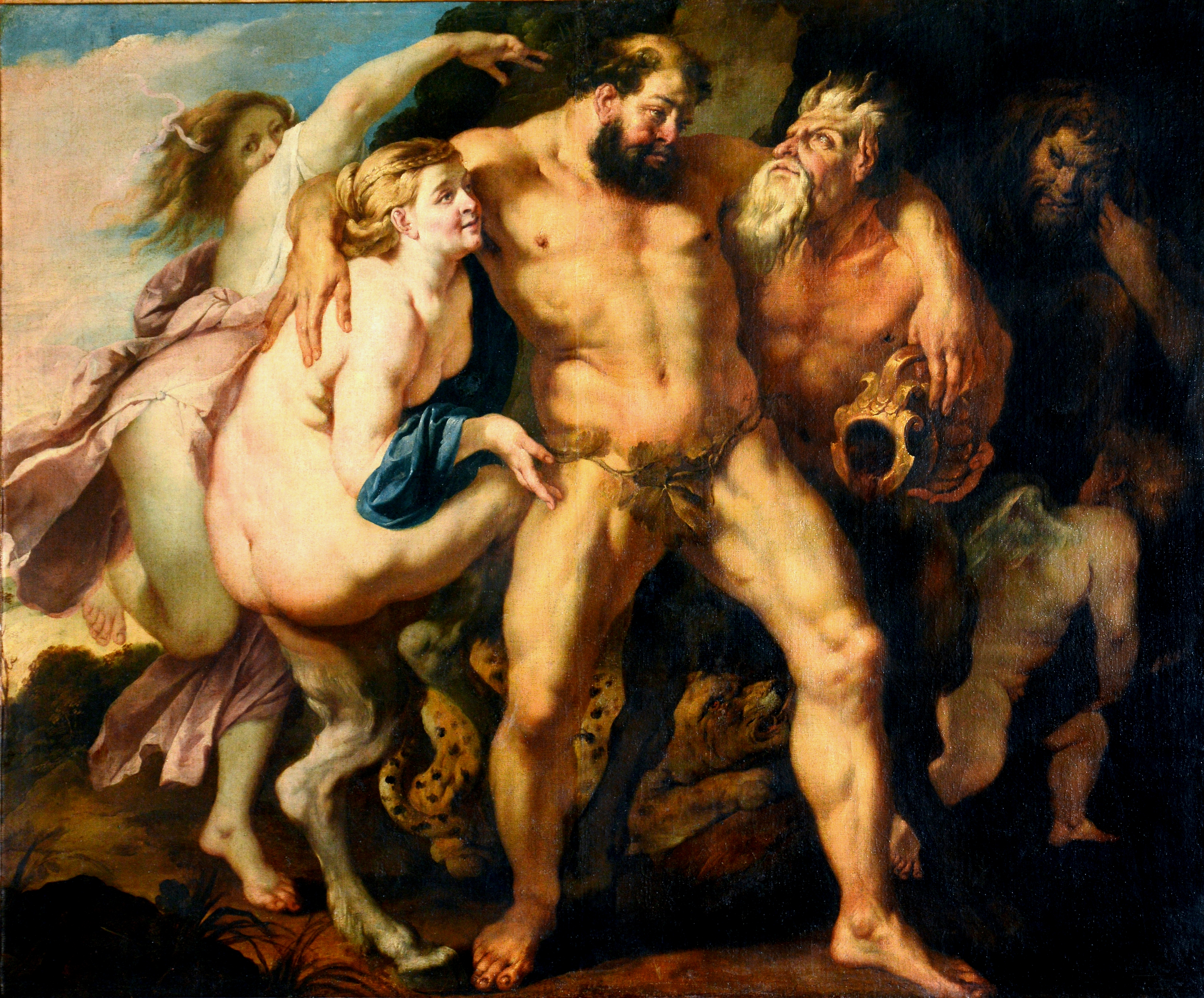 Pieter Paul Rubens (Workshop) "The drunken Hercules"